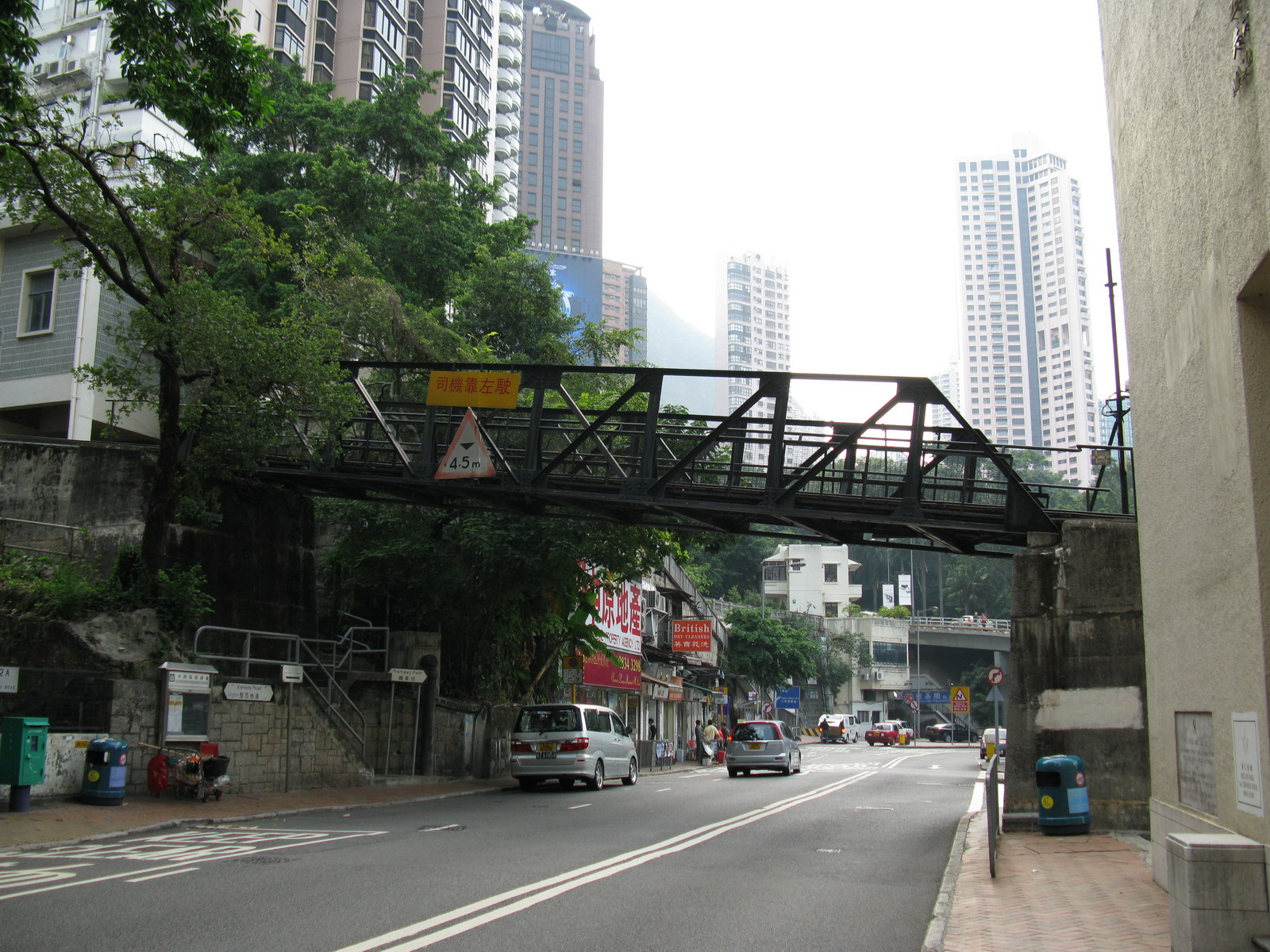 Kennedy Road, view towards Cotton Tree Drive